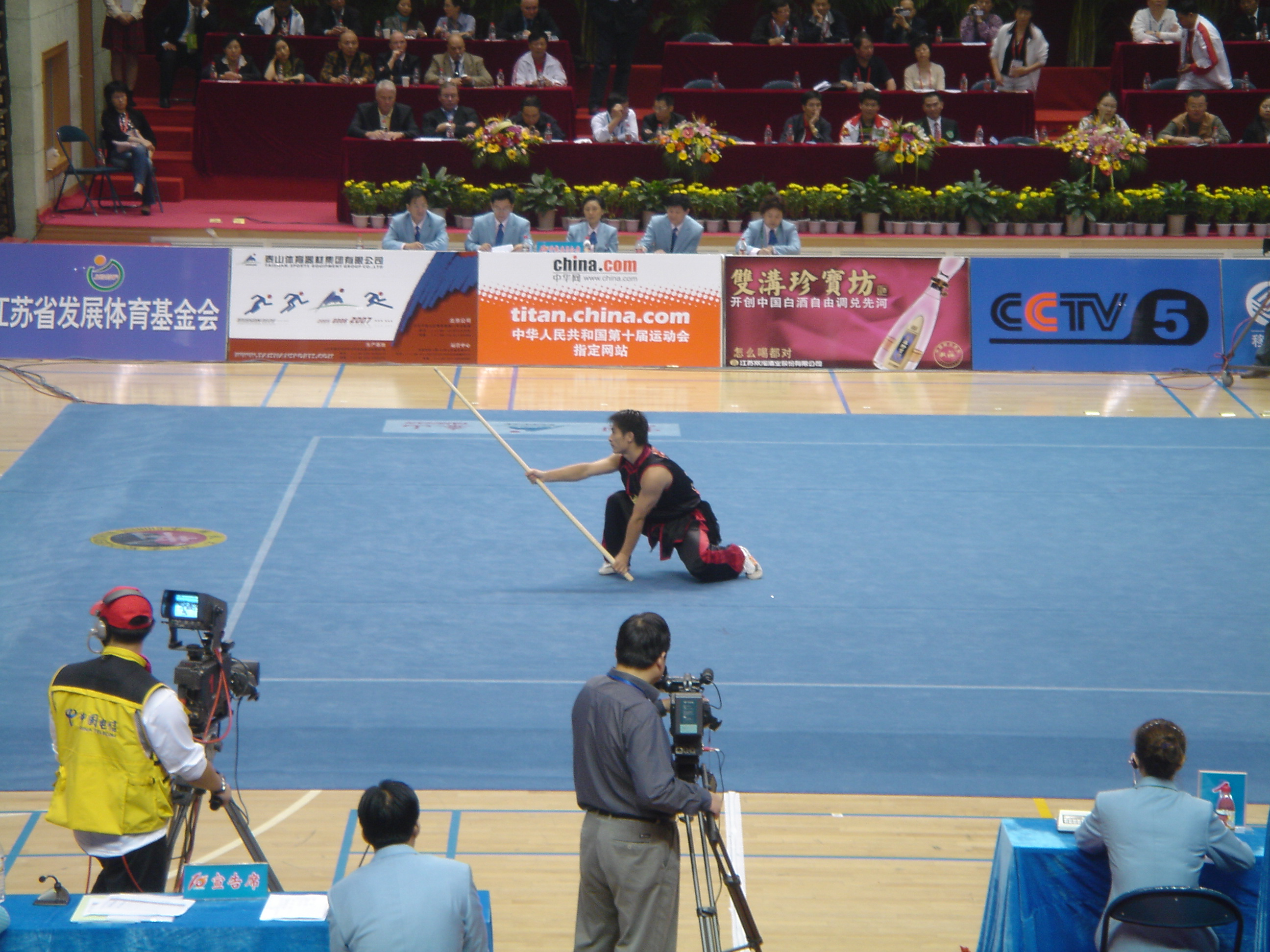 Nangun event at the 10th All China Games.